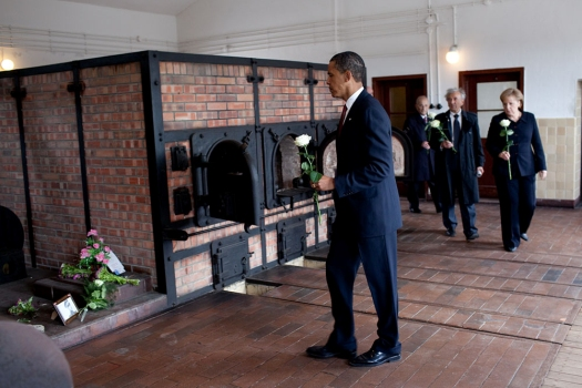 President Barack Obama places a flower at a memorial at Buchenwald Nazi concentration camp, June 5, 2009. With the President are German chancellor Angela Merkel, Holocaust survivor Elie Wiesel, and camp survivor Bertrand Herz.